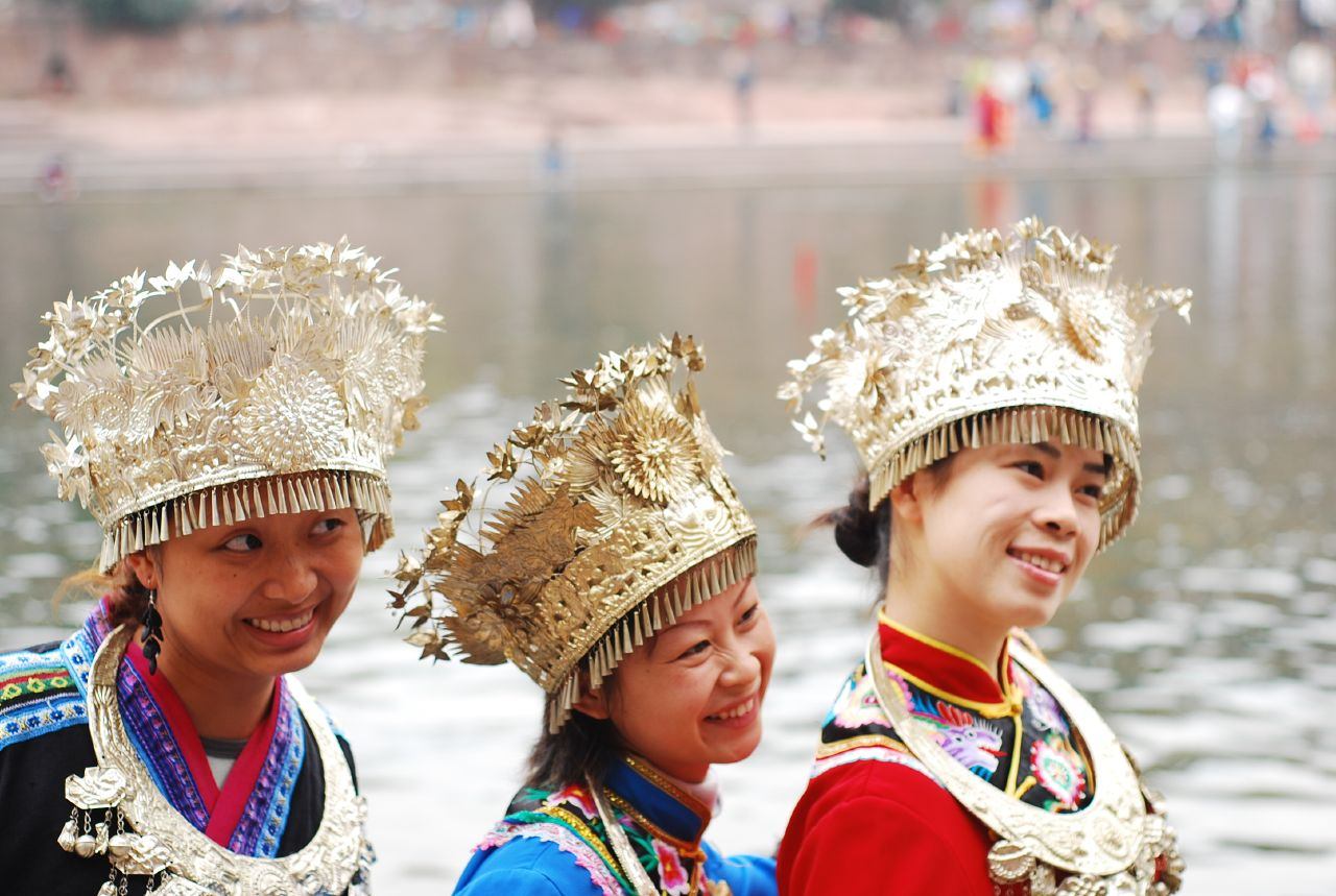 Miao girls in Guizhou province, China